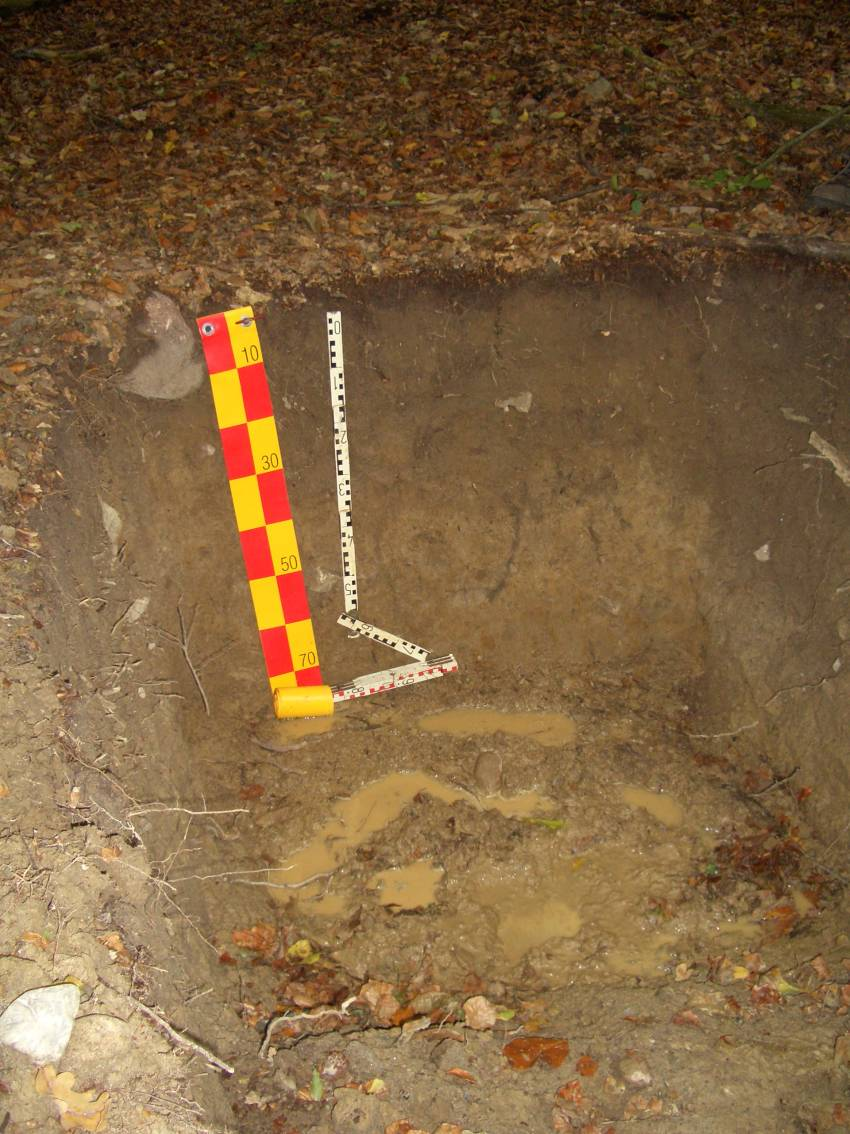 Alfisol at the peninsula „Conower Werder“ in the lake „Carwitzer See“, Mecklenburg-Vorpommern (Germany).